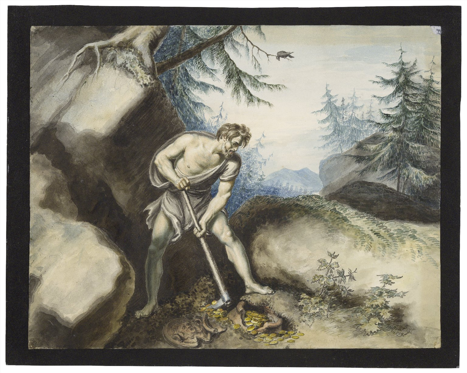 Watercolor by Johann Heinrich Ramberg of Act IV, Scene iii of Timon of Athens.